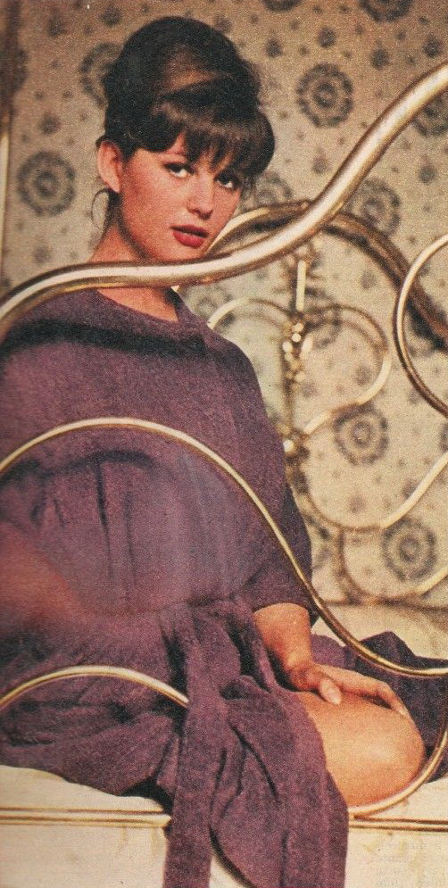 Italian actress Claudia Cardinale